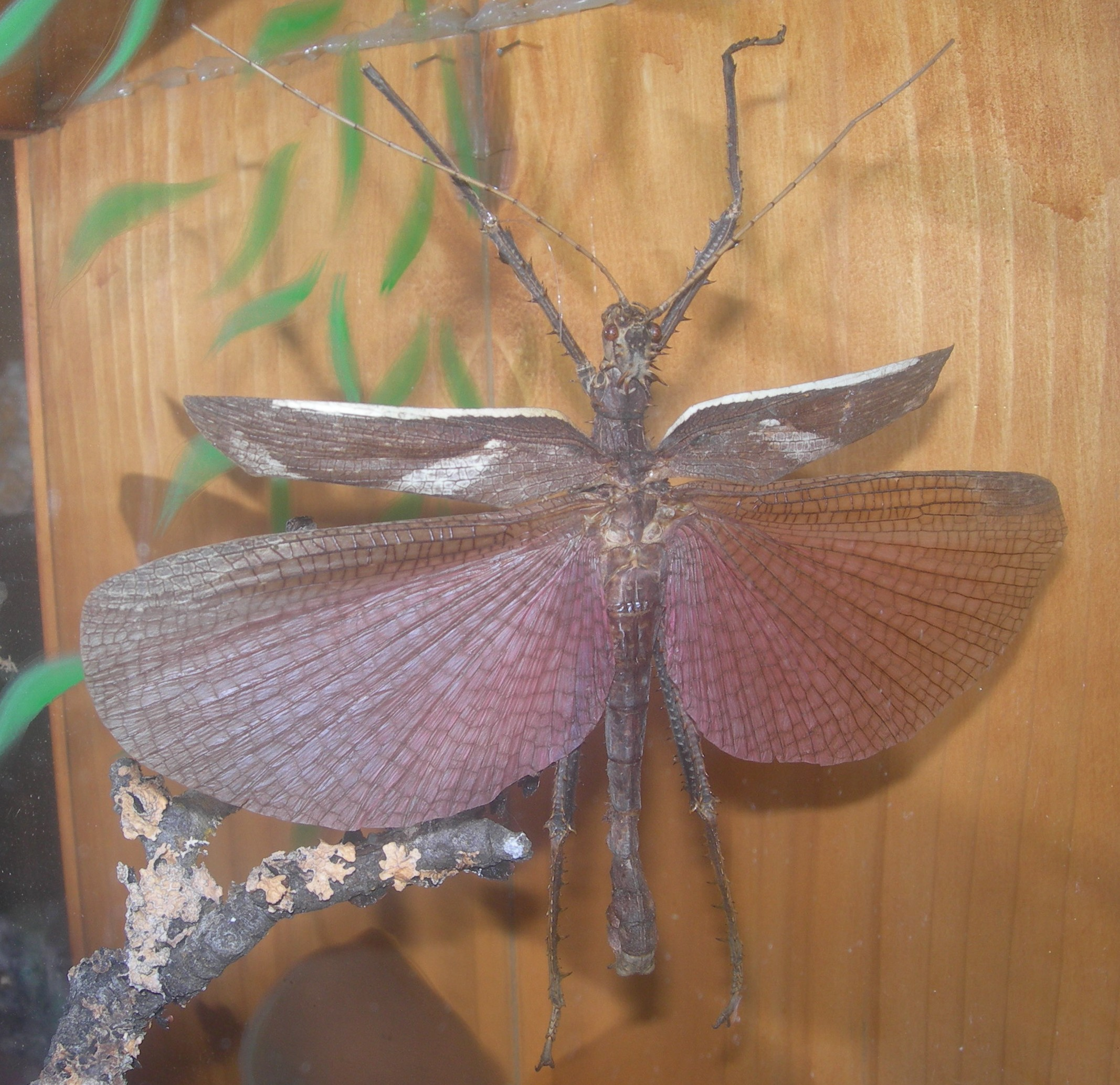 Mounted male of Heteropteryx dilatata